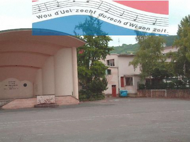 Kiosk Ettelbréck (Heemecht Première. On this square, Place Marie-Thérese, on June 5 1864 the Luxembourg national anthem was performed for the first time in public)